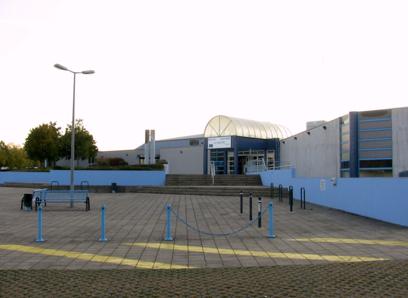 Swiming-pool of Planoise, located in Besançon (Doubs, France)